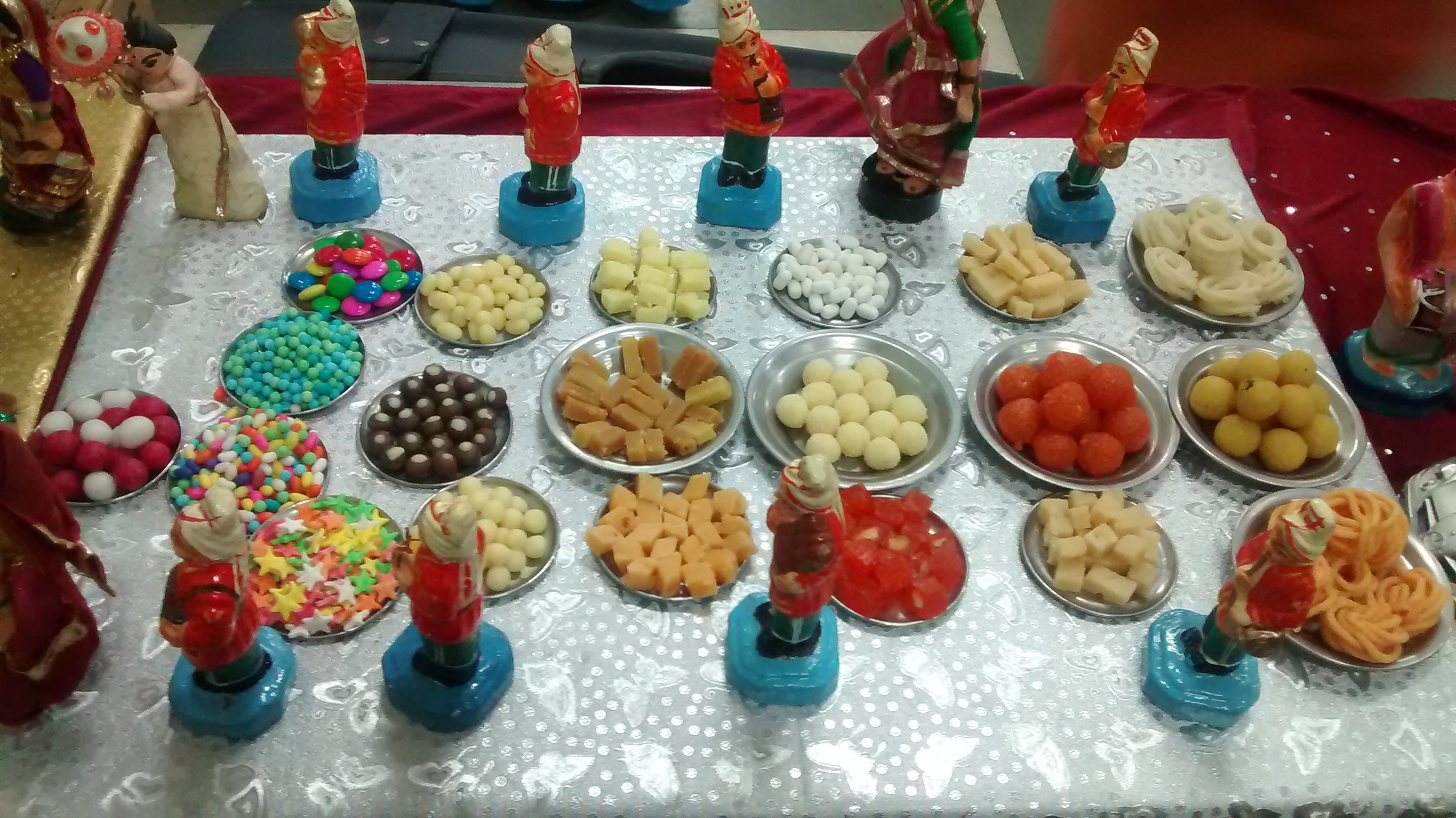 Wish I could have been small :)